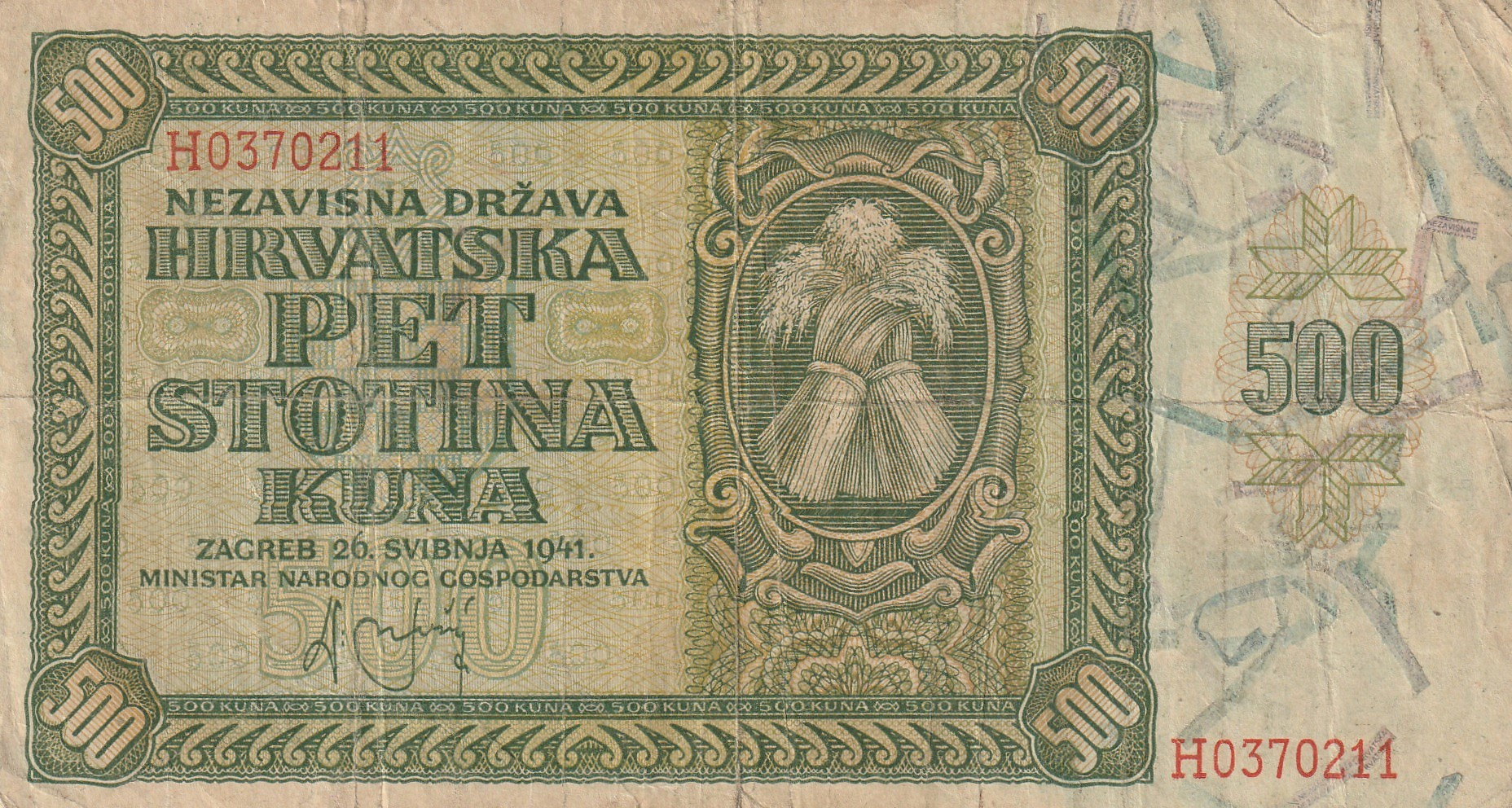 500 kuna 26. svibnja 1941.